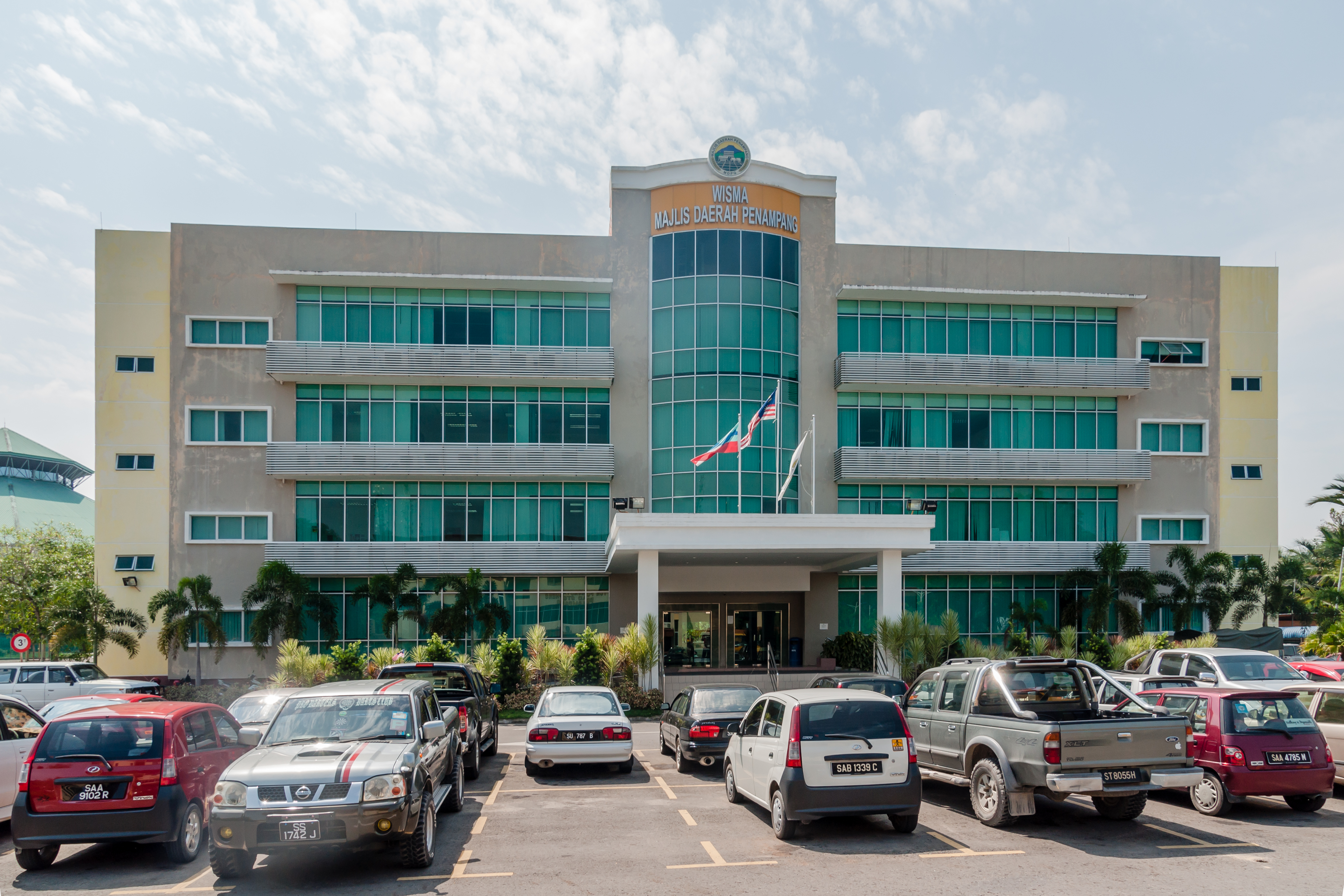 Penampang, Sabah: Building of Pernampang District Council (Wisma Majlis Daerah Penampang)